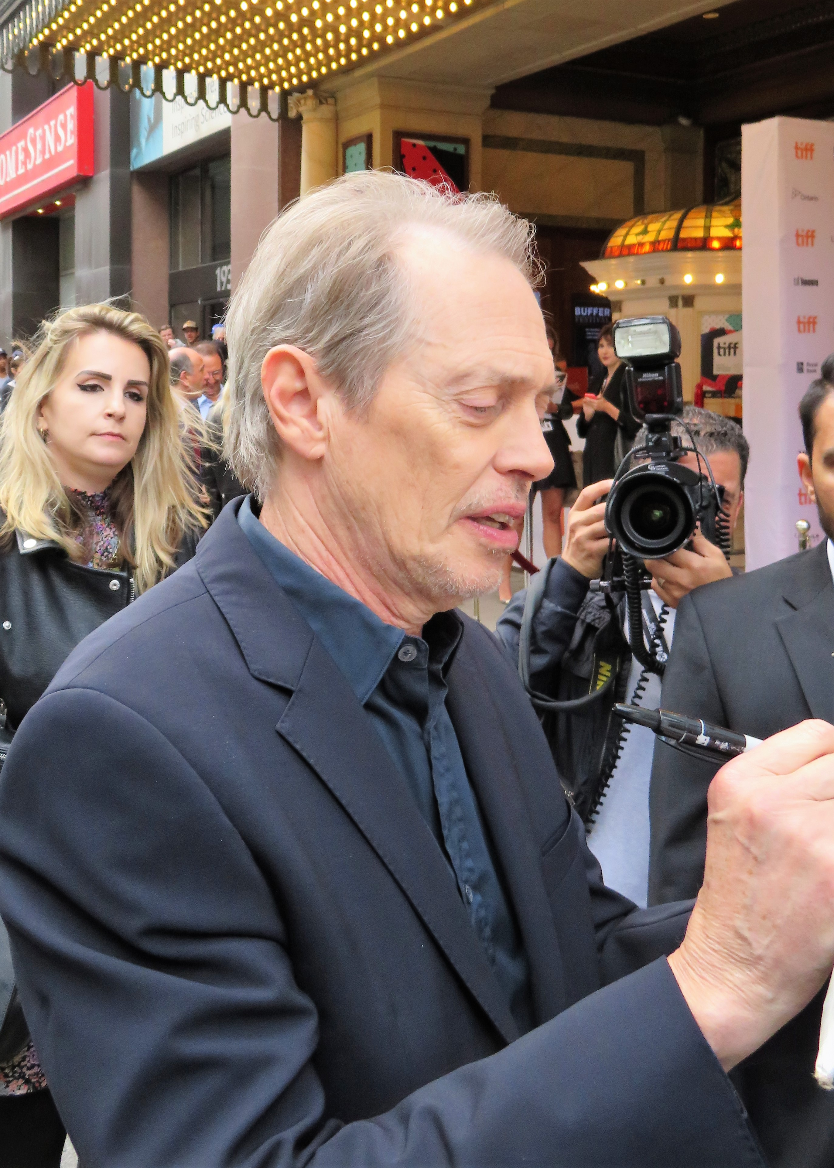 Steve Buscemi at the premiere of Death of Stalin, 2017 Toronto Film Festival